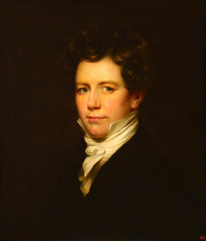 Portrait of John Howship (1781–1841), English surgeon.